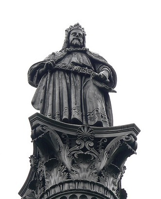 Charles IV, Holy Roman Emperor